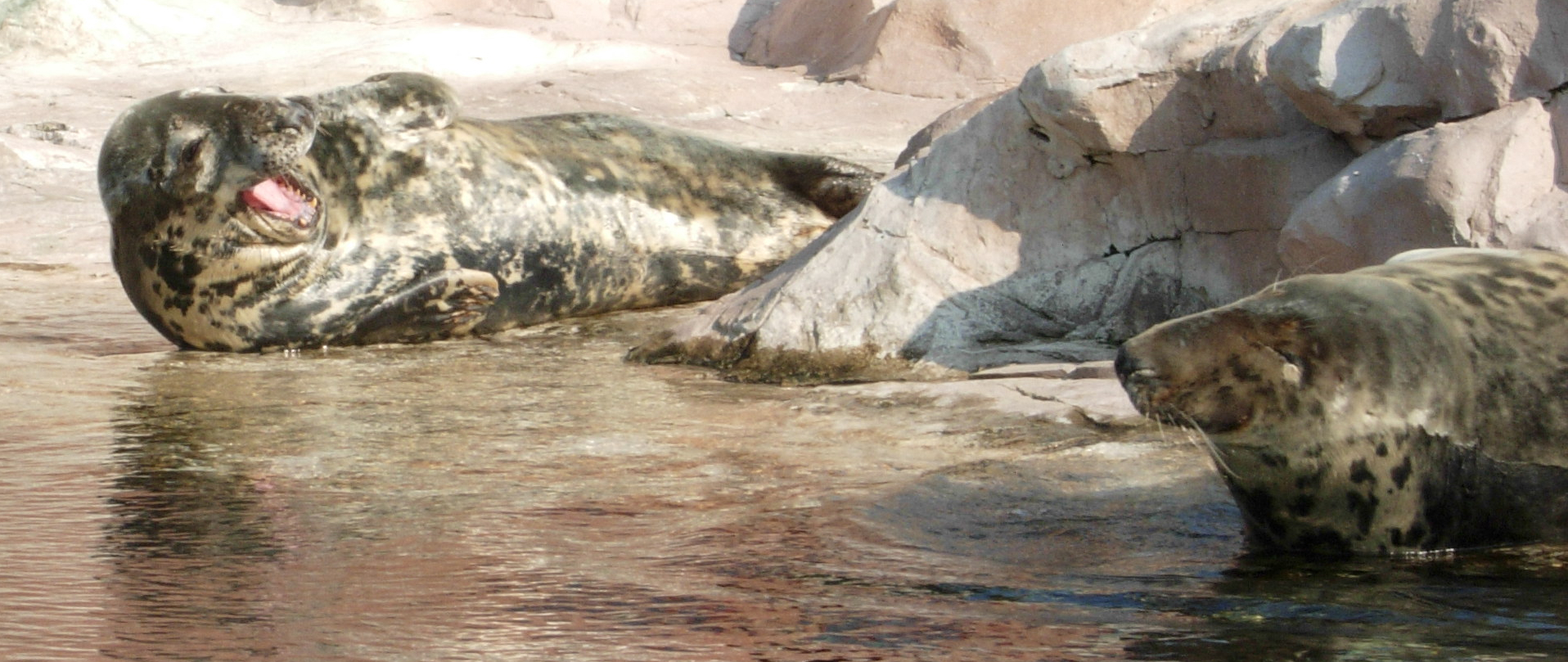 Two Grey Seals relaxing at the Lincoln Park Zoo, one yawning.